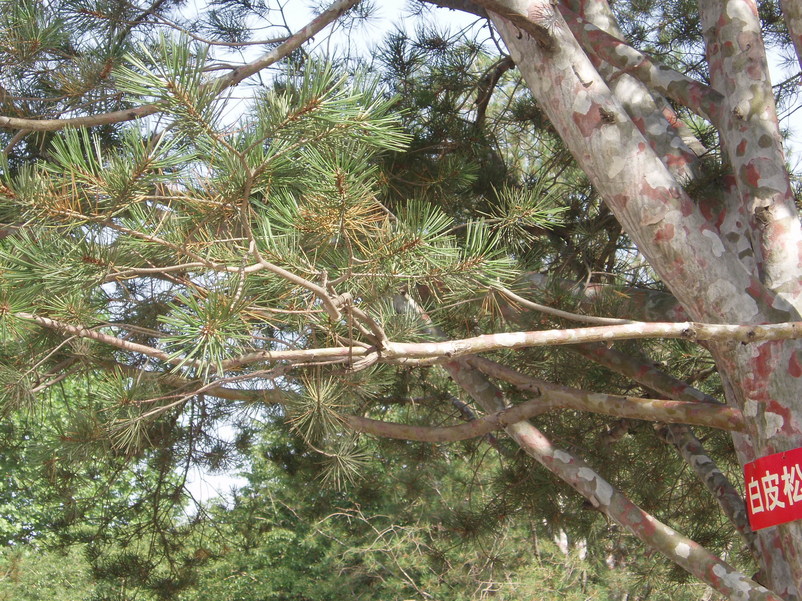 Bark and foliage